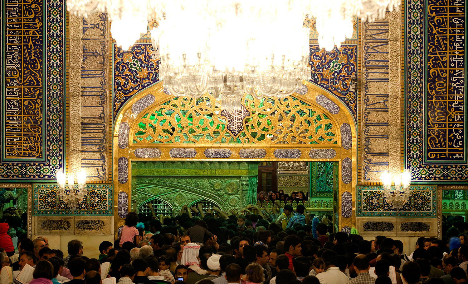 Dar ul-Hifaz - Holy Shrine of Ali al-Riha - Mashhad-Iran